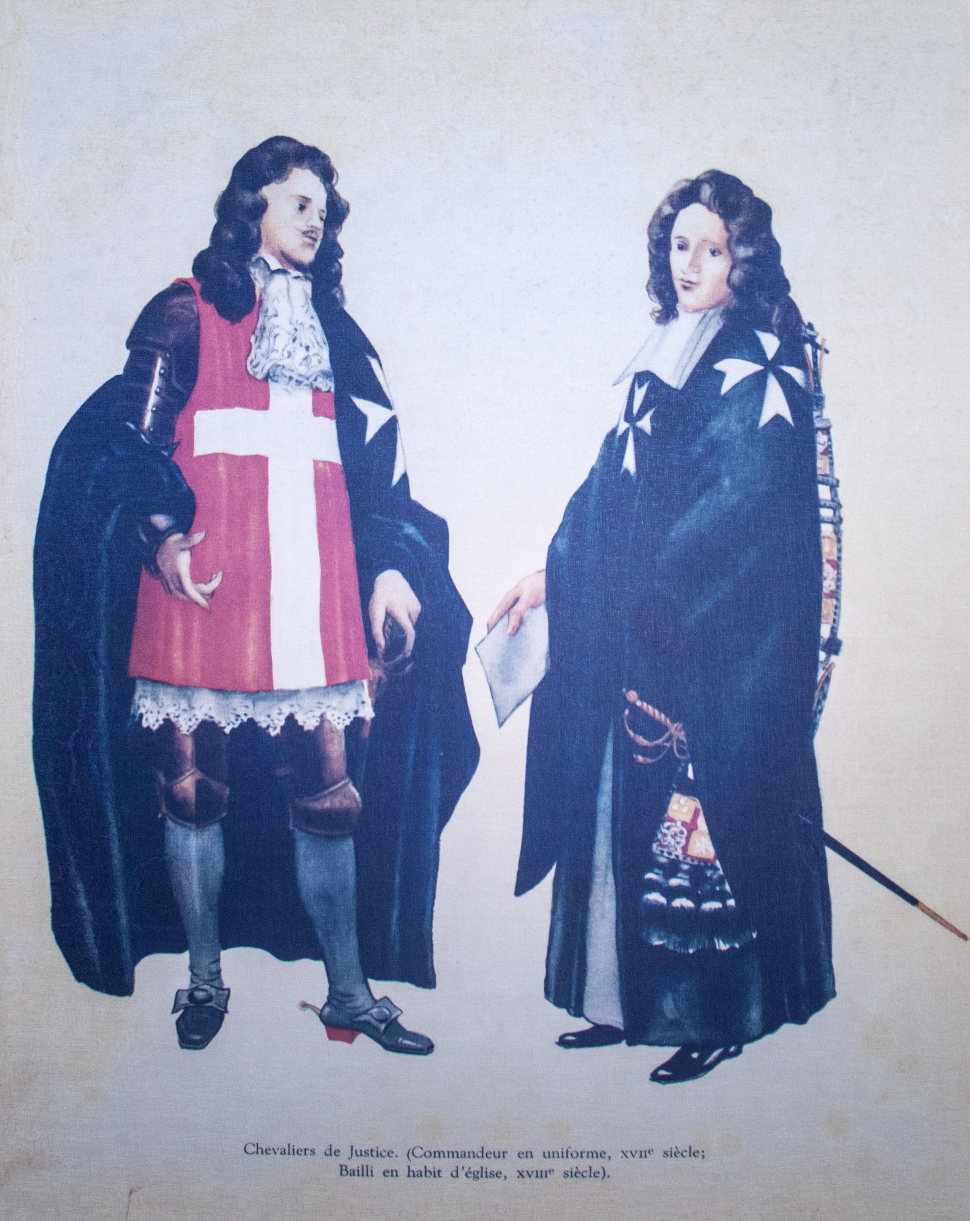 Drawing of people belonging to the Order of Saint John of Jerusalem from the end of the 18th century